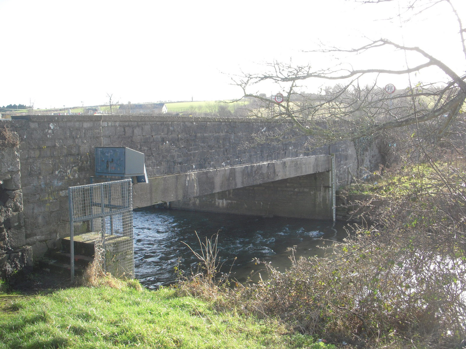 Duleek Bridge Bridge over River Nanny near Duleek, Co Meath.